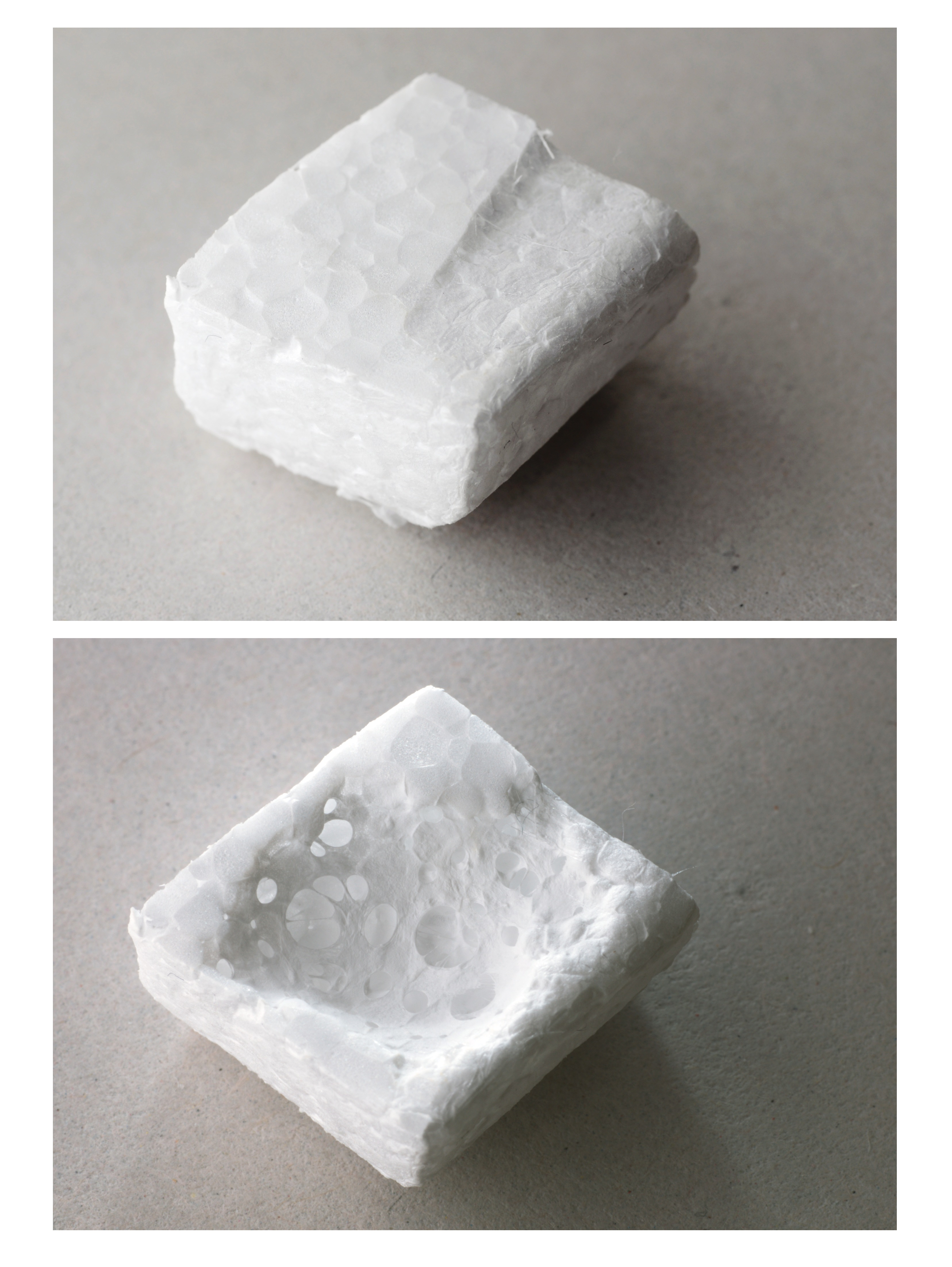 A drop of Acetone on Styrofoam